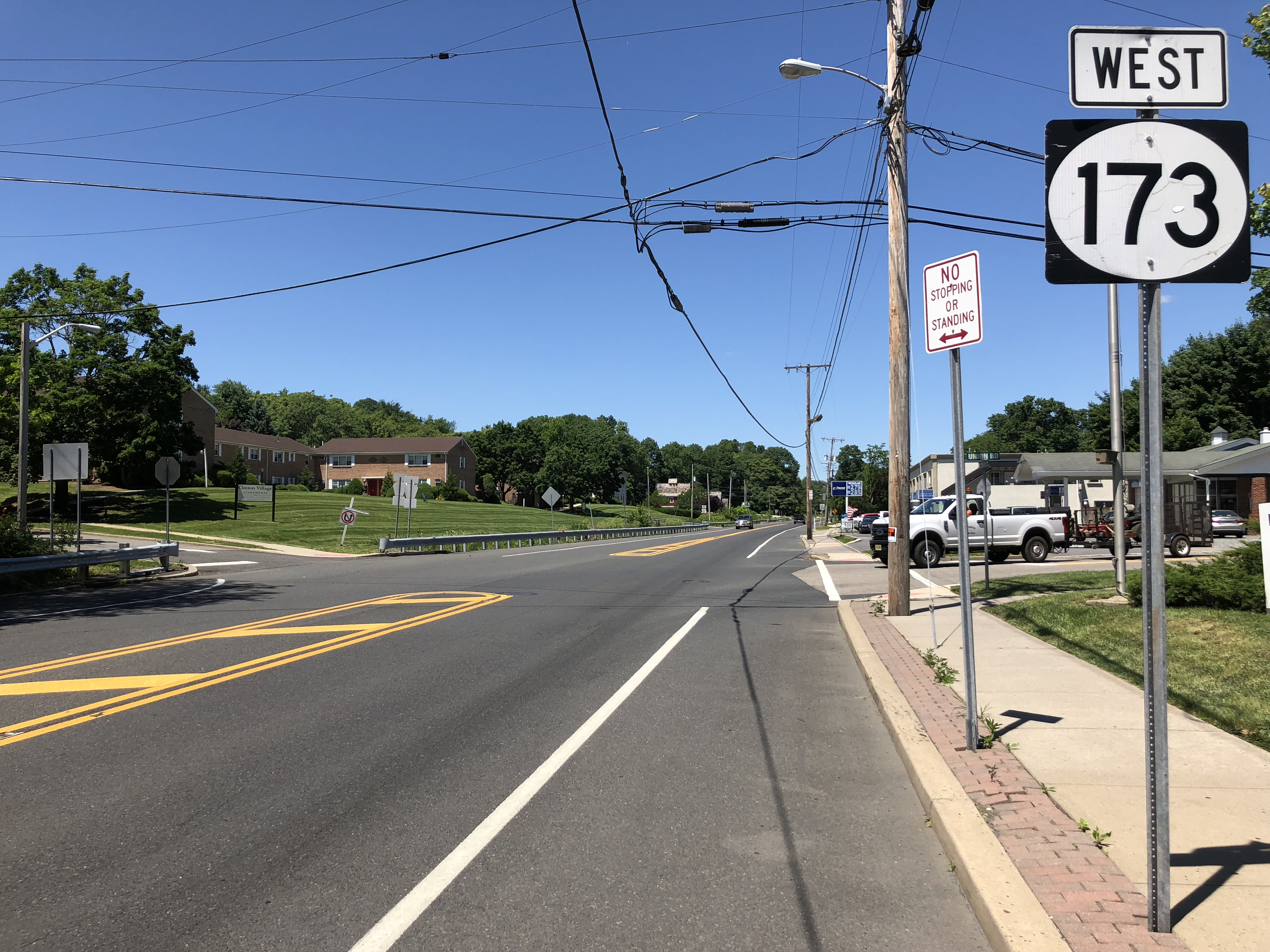 View west along New Jersey State Route 173 (Main Street) just west of Hunterdon County Route 513 (Pittstown Road) in Clinton, Hunterdon County, New Jersey